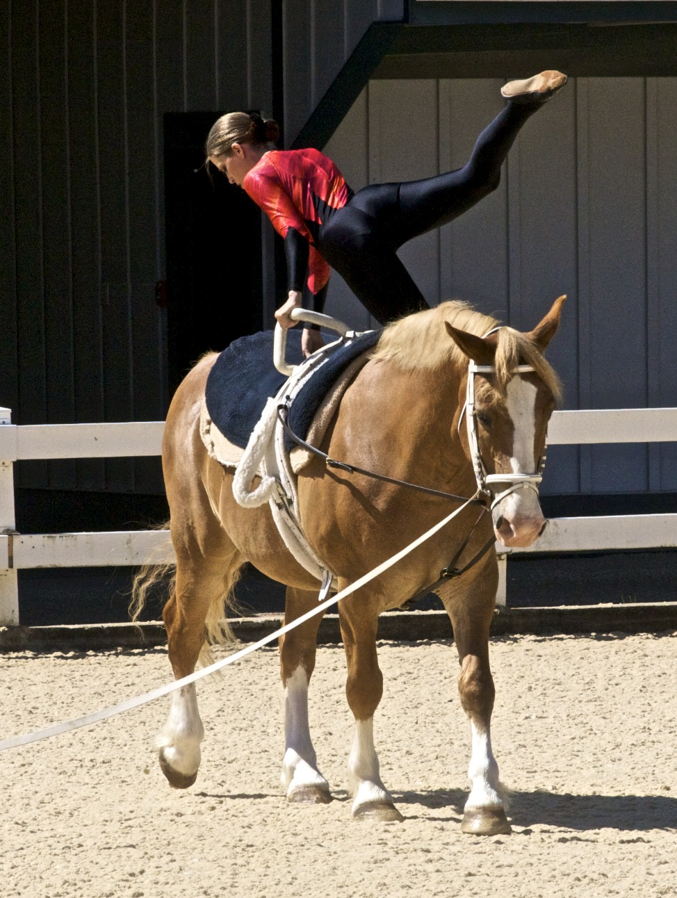 Belgian Warmblood Vaulting Horse